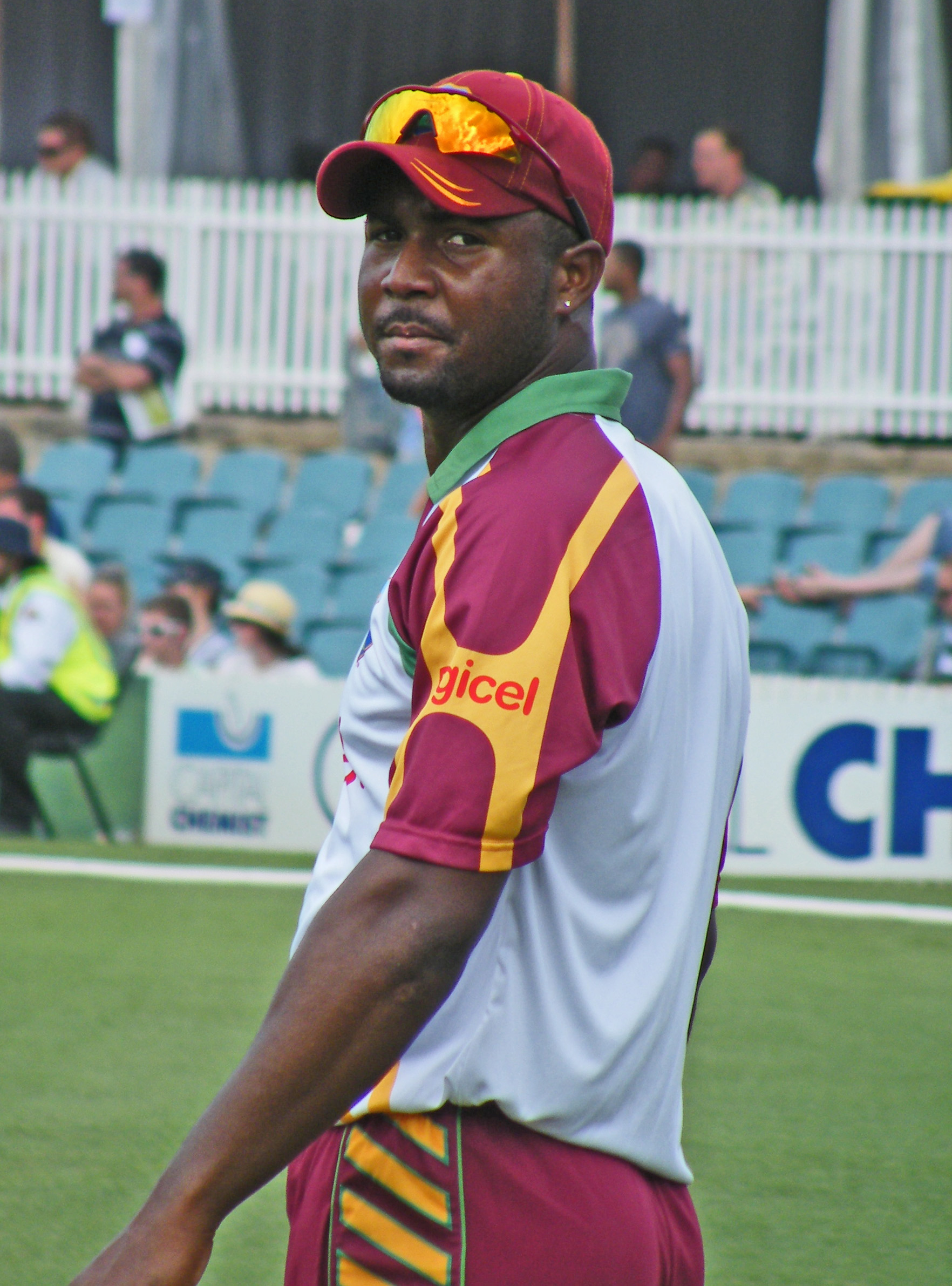 Dwayne Smith at the Prime Ministers 11 Cricket match in Canberra 2010.